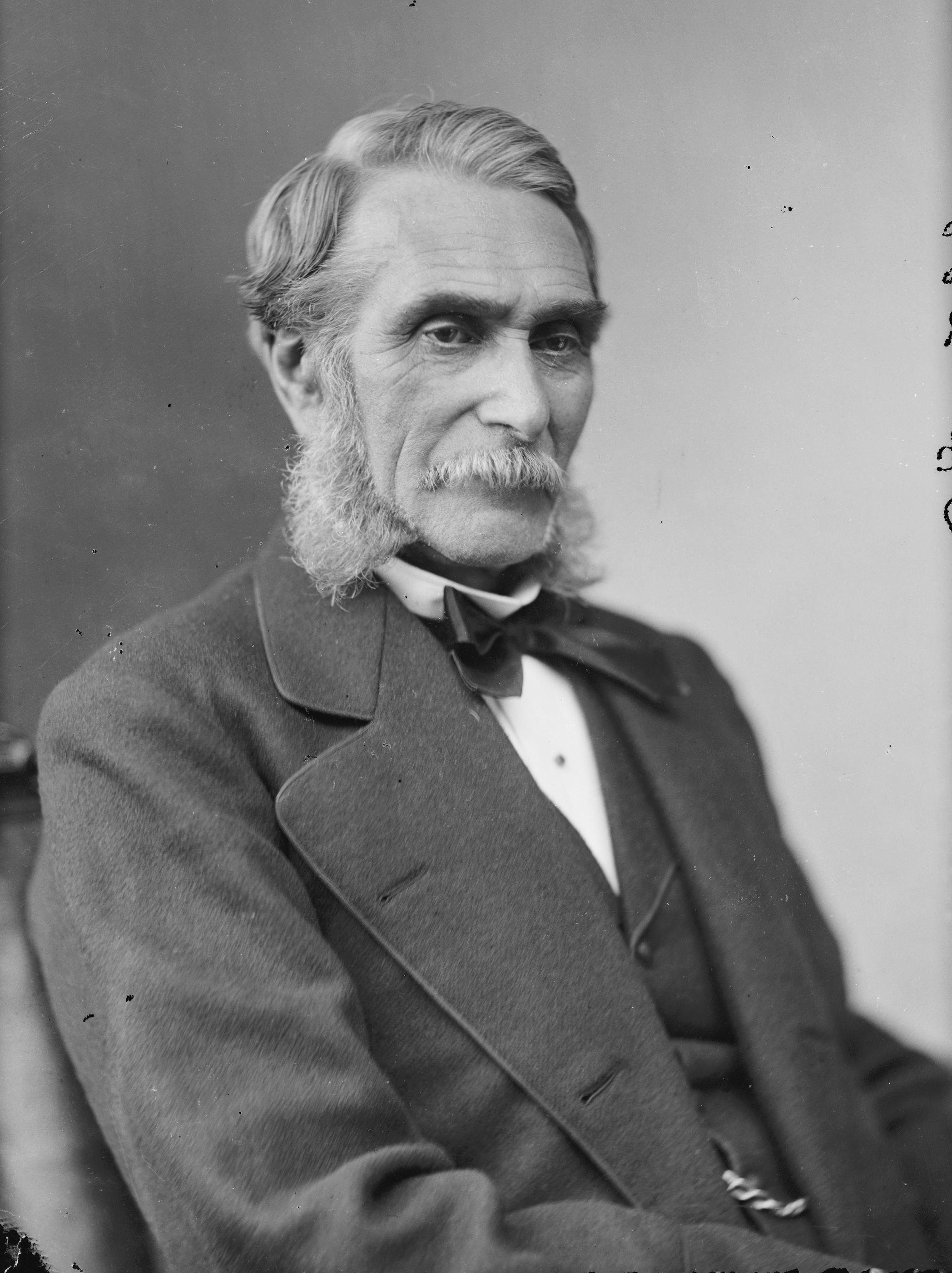 Thomas Baldwin Peddie. Library of Congress description: "Thos. Baldwin Peddie M.of C. of N.J. B.-Edinburgh, Scotland 1808. D-Newark, 1889 emigrated to America in 1833 - located in N.J. served 2 terms in state legislature. twice elected Mayor of Newark. M.C. 1877-1879".